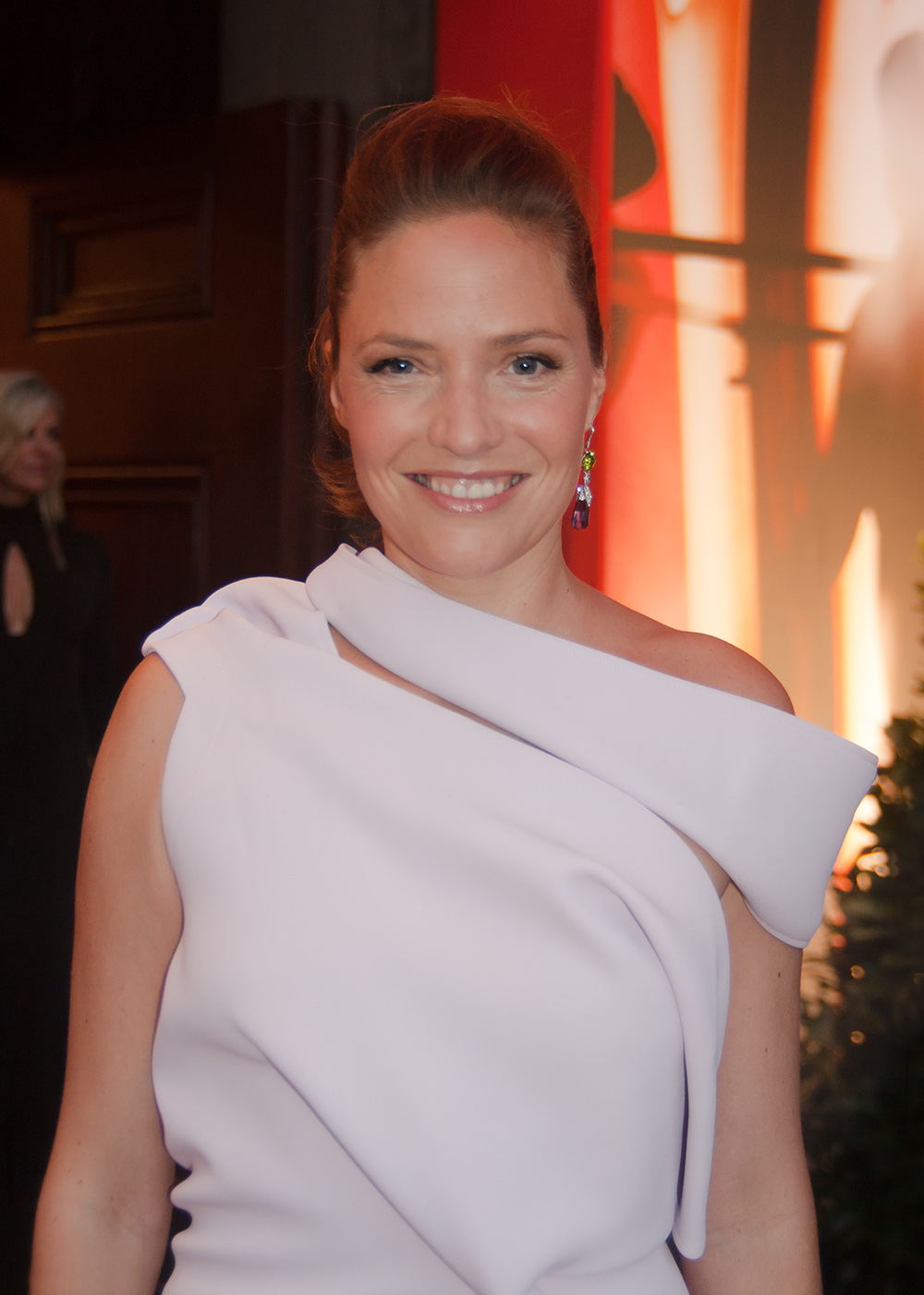 Patricia Aulitzky on the red carpet of the Romy TV awards 2017 at Hofburg Palace in Vienna, Austria.